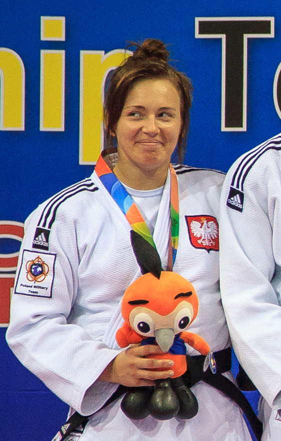 Daria Pogorzelec. Foto: Sgt Johnson Barros